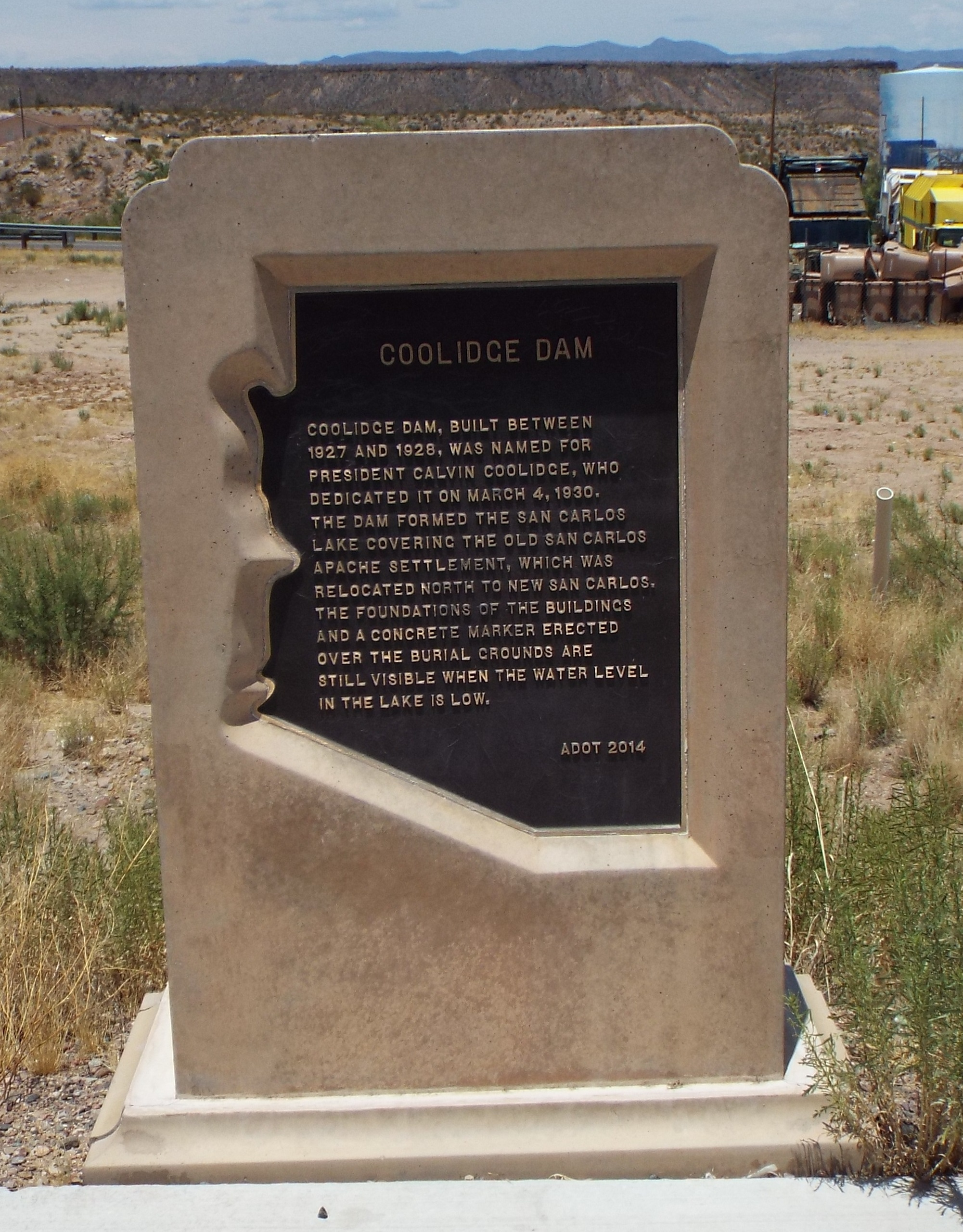 Historic Coolidge Dam marker in San Carlos, Arizona